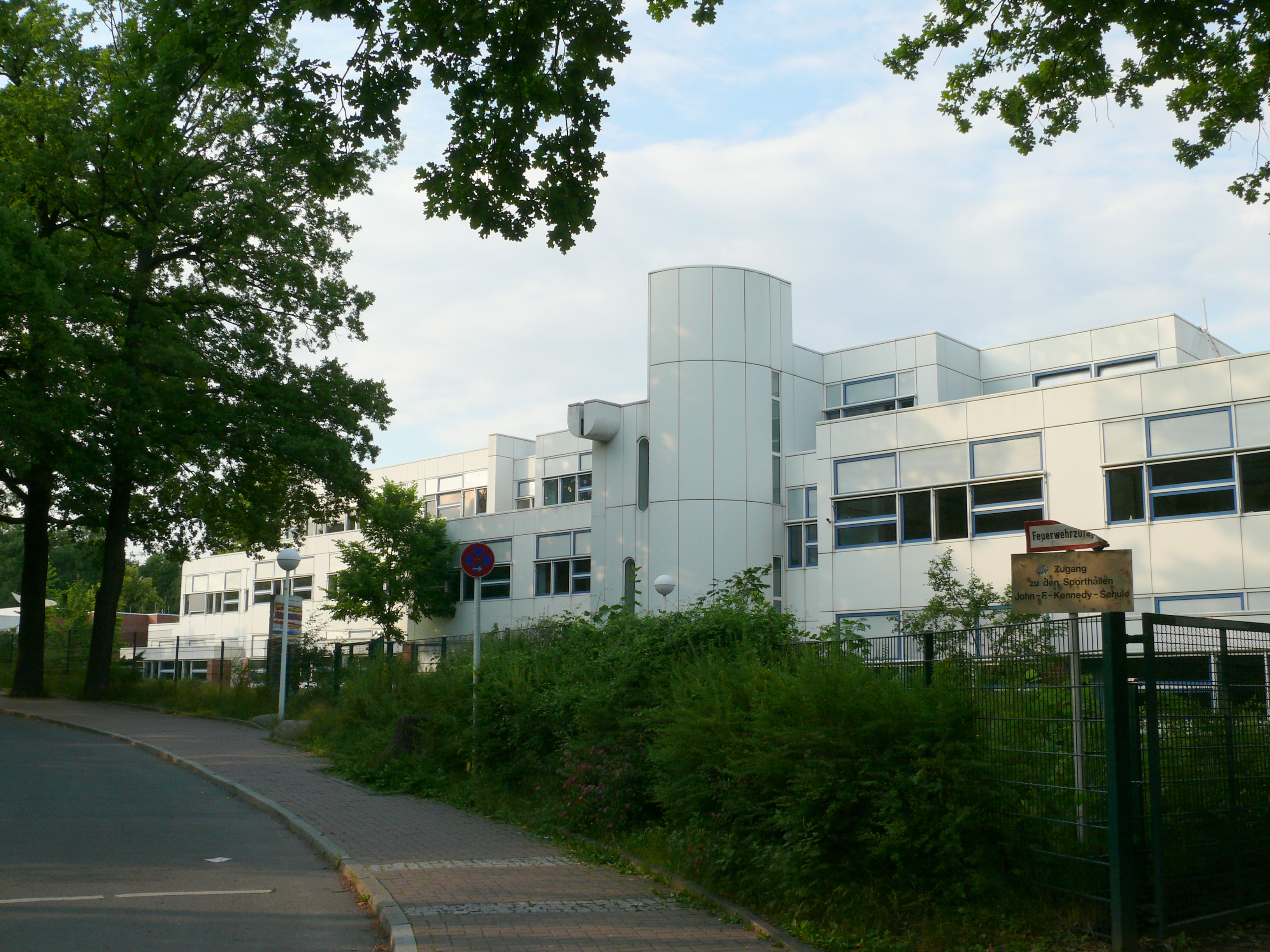 Berlin-Zehlendorf John-F.-Kennedy-Schule